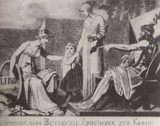 The Visiting card of Johann van Beethoven apothecary shop (Brother of Ludwig van Beethoven)